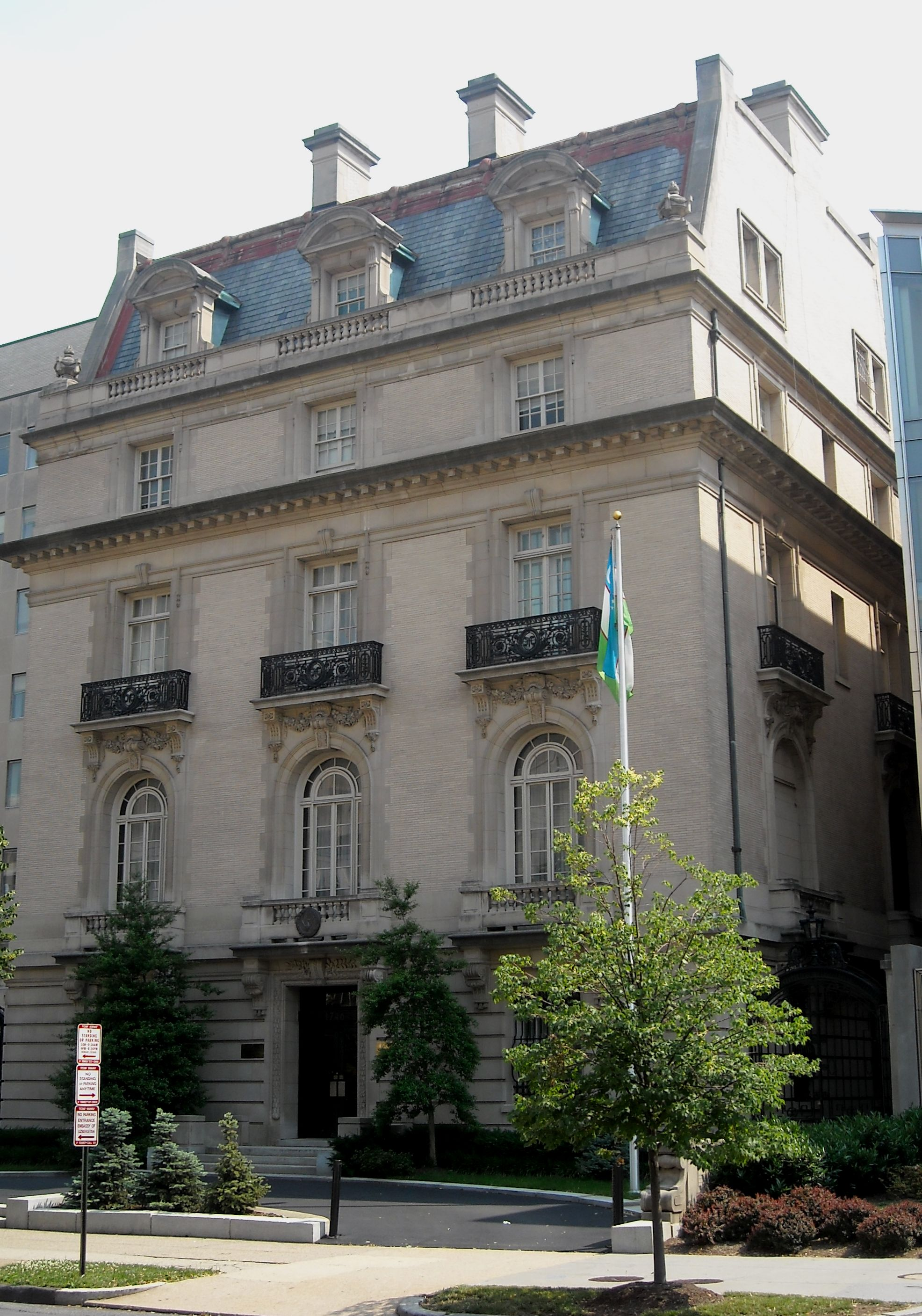 Clarence Moore House, now the Embassy of Uzbekistan, in Washington, D.C. The building is listed on the National Register of Historic Places.